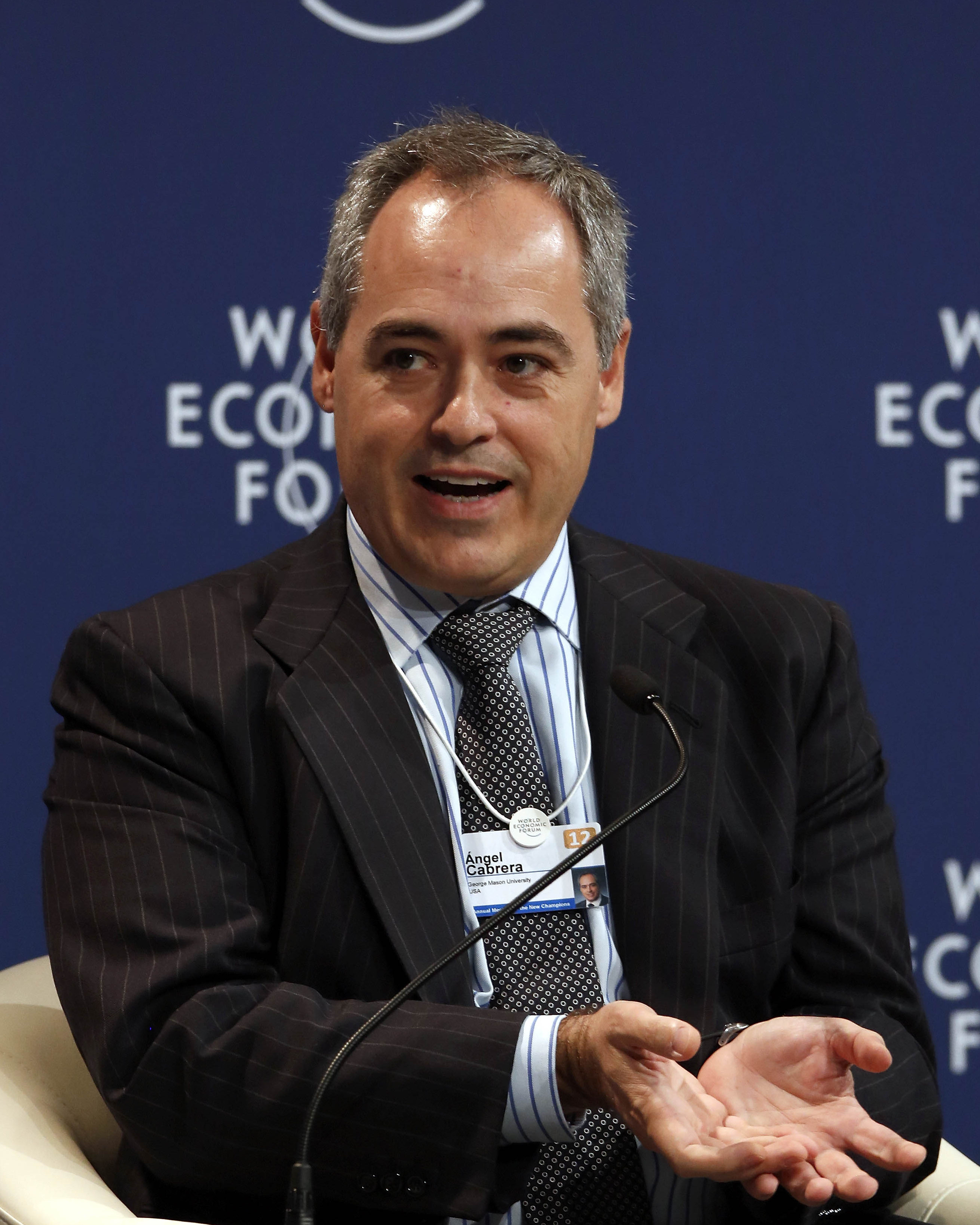 Ángel Cabrera, President, George Mason University, USA; Young Global Leader Alumni at the Annual Meeting of the New Champions in Tianjin, China 2012